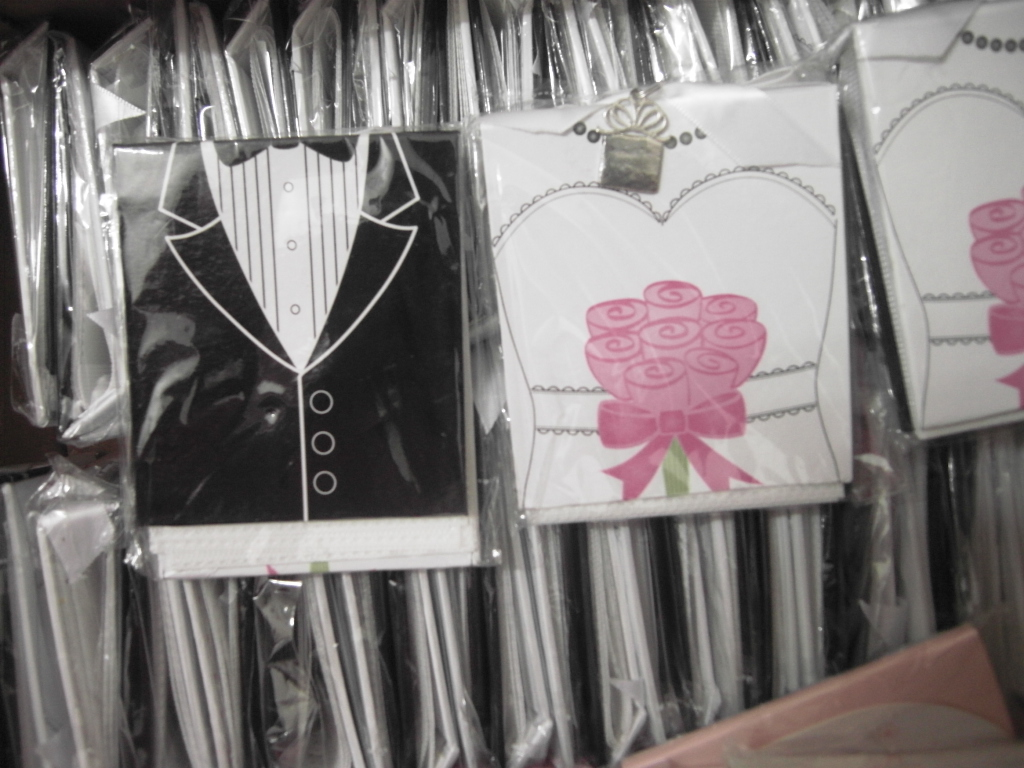 Item Name:Wedding Dress Photo Album Material:Paper specifications: Outside: 8cm*9cm Inside page:6 pages,can put 12 pcs photos Size of photo:7cm*8cm Weight:30g When we give our guest this photo frame, Also put our wedding photo into the photo frame. Many Many years past... When our guest take out the photo frame, See the photo,thinking the happy time on the wedding~.~ Such a good photo frame to keep our Sweet Memories, What are you waiting for,dear(*^.^*)